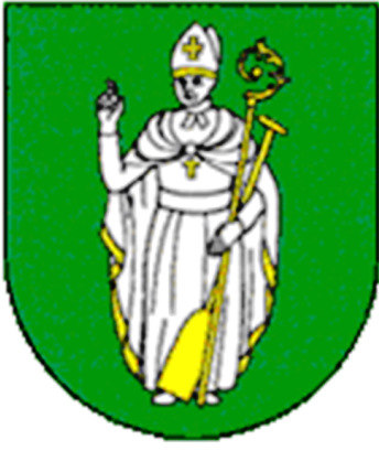 CoA of Vajka Vojka nad Dunajom, Slovakia